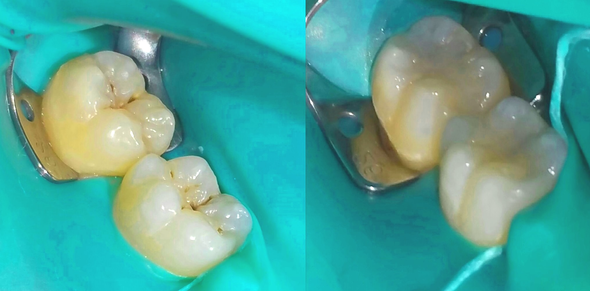 The use of flowable composite in spot caries